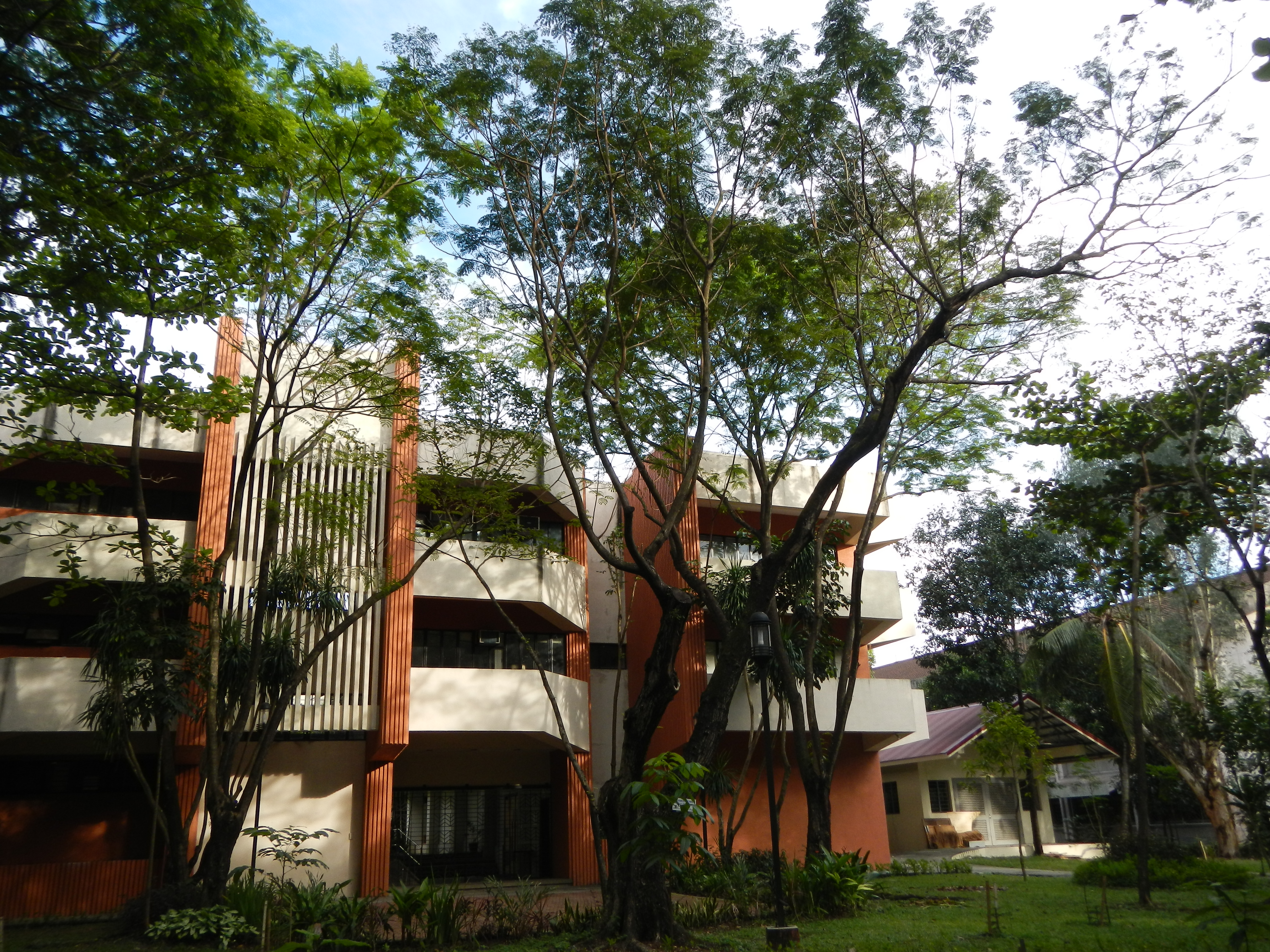 [1]Delonix regia